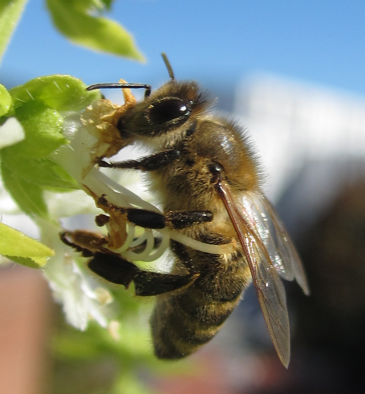 Bee foraging on Basil